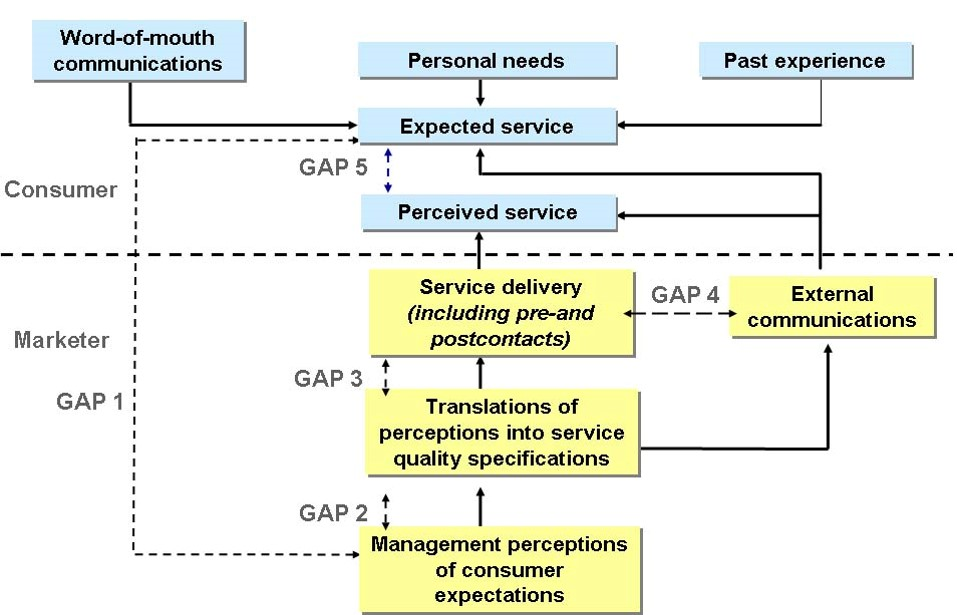 simplified model of service quality